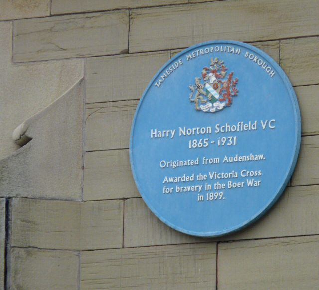 Harry Norton Schofield VC. Blue plaque at Ryecroft Hall 1176906 commemorating the Audenshaw soldier who was awarded the Victoria Cross for bravery in the Boer War in 1899.